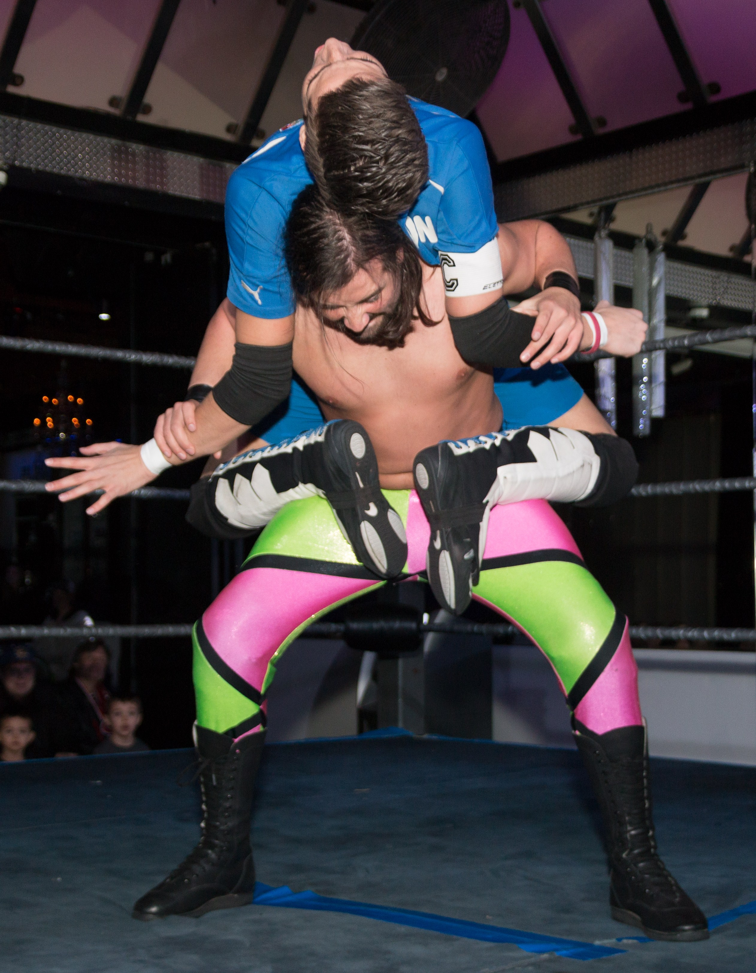 Wrestler Robbie Reckless placing Alessandro Del Bruno in a Gory Special hold